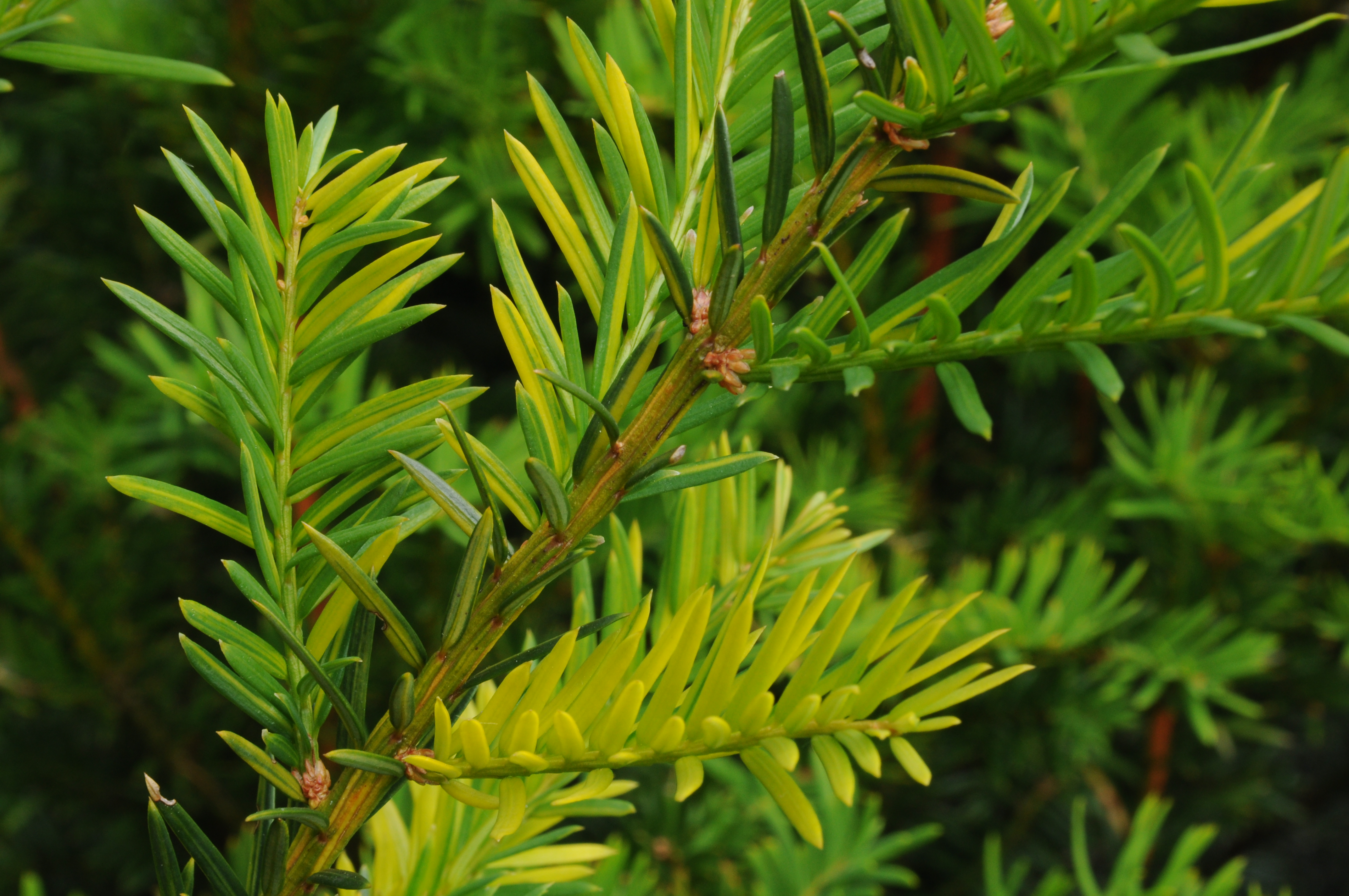 Taxus baccata